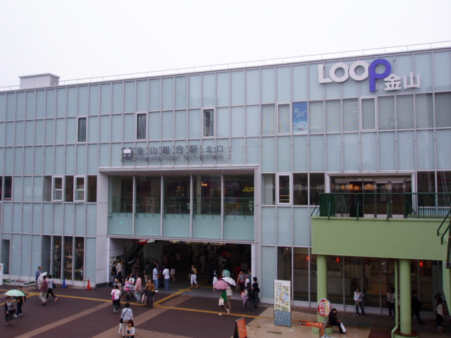 Kanayama Station North Gate This Kanayama station is the Kanayama station in Aichi Prefecture. 金山駅北口 この金山駅は愛知県にある金山駅です。